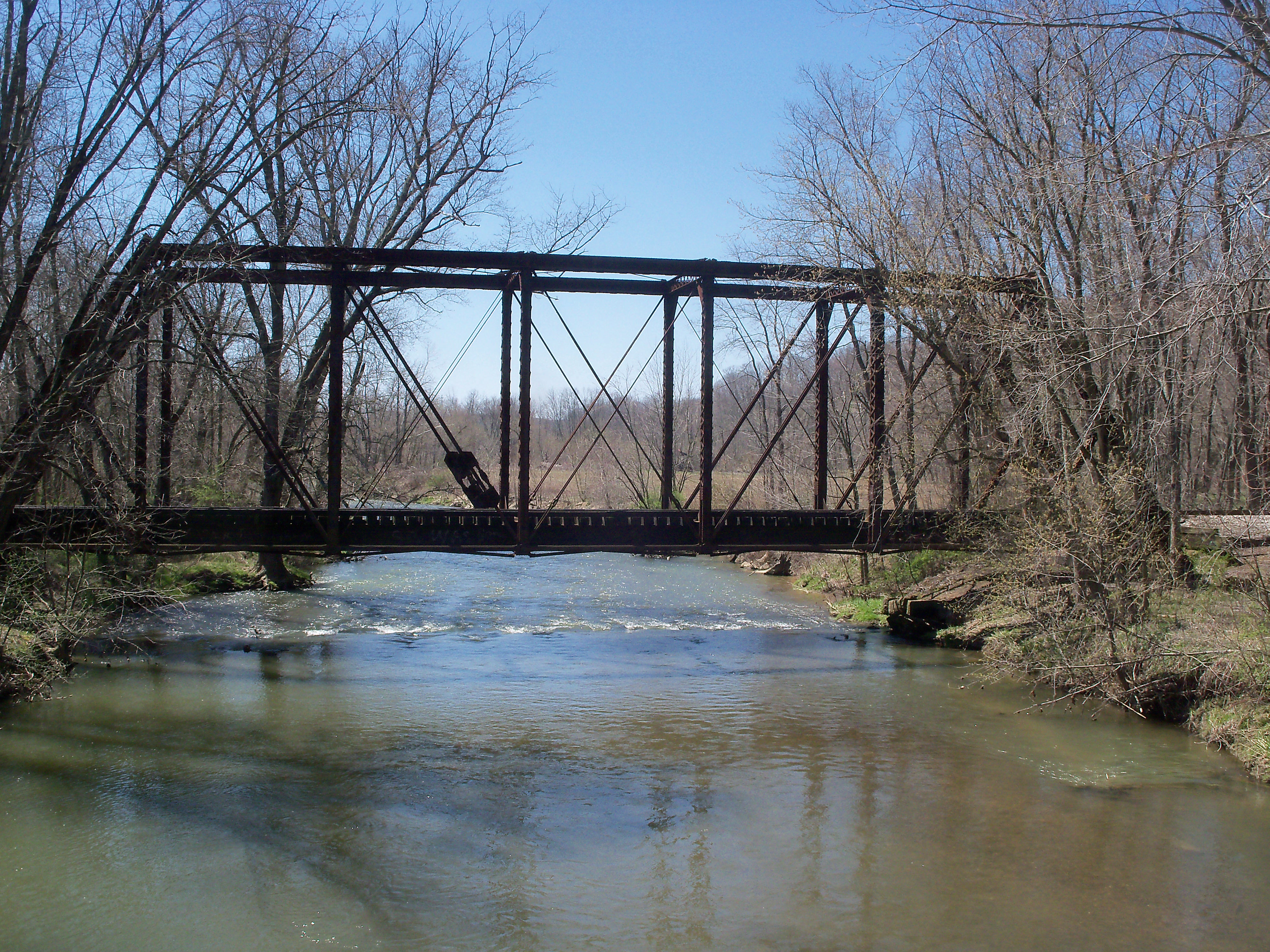 W&LE bridge over Sandy Creek in Oneida, Ohio, view from road bridge upstream to east.